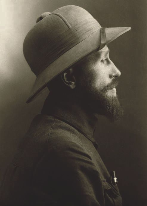 Kazimierz Nowak. The photo probably taken by Kazimierz Nowak (1897-1937, the author is on the photo; taken probably by a self-timer) - a Polish traveller, correspondent and photographer. Probably the first man in the world who crossed Africa alone from the North to the South and from the South to the North (from 1931 to 1936; on foot, by bicycle and canoe).